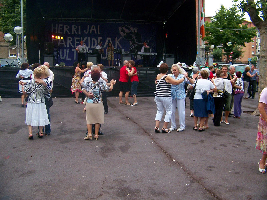 Dancing in Bilbao.